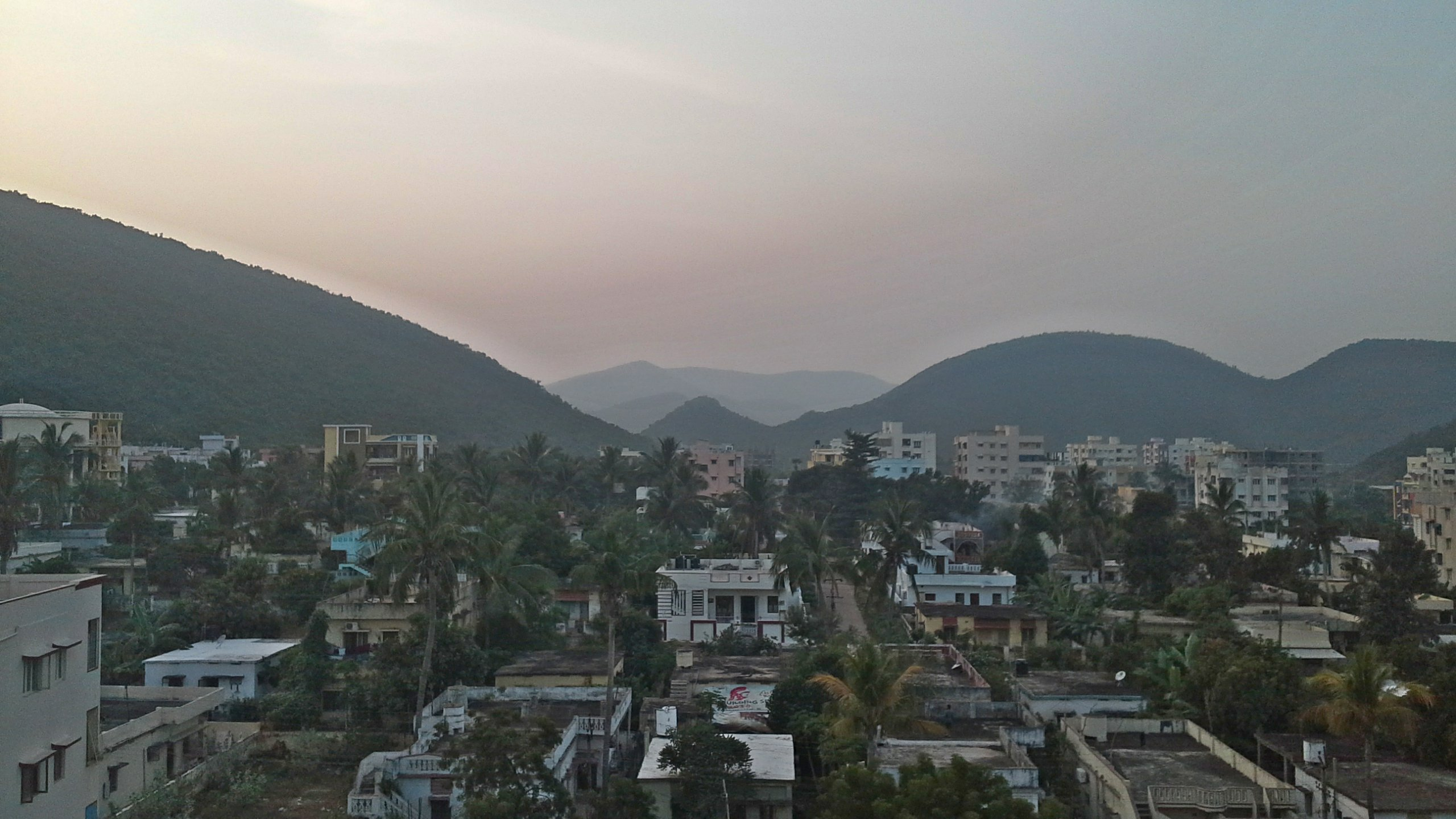 Pothina mallayyapalem view in Visakhapatnam city